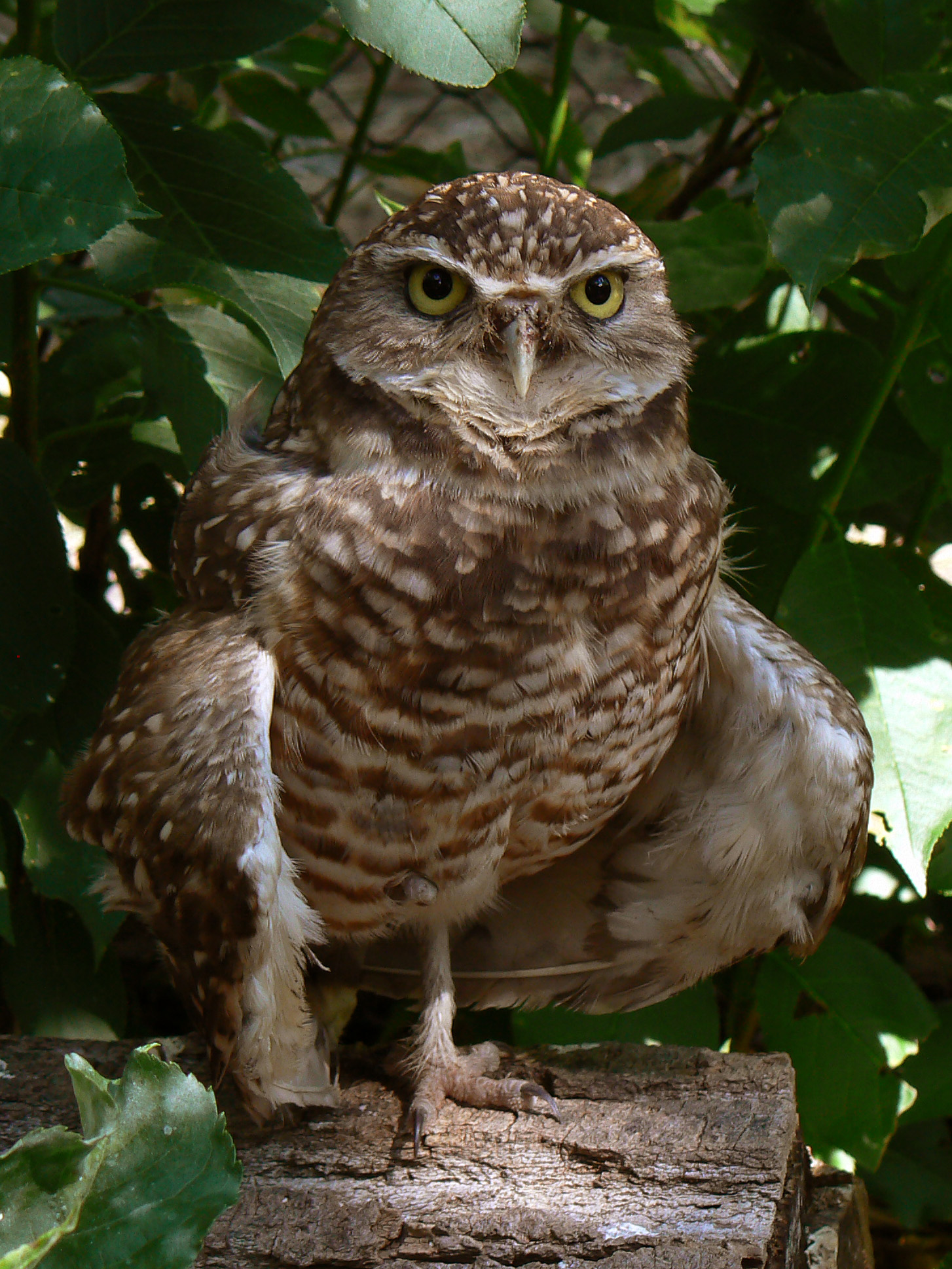 Burrowing Owl. Own work cropped by User:Wsiegmund into 4X3 ration, enhanced.